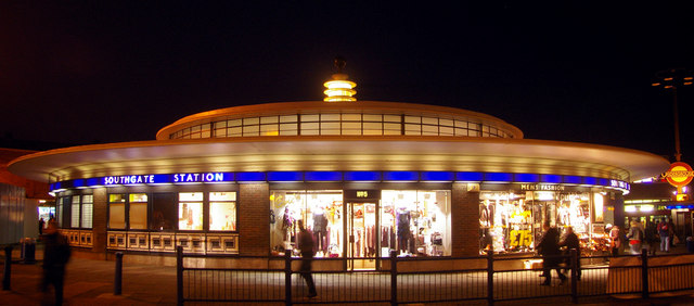 Southgate Station, London N14 Night time view of Charles Holden's art deco building.